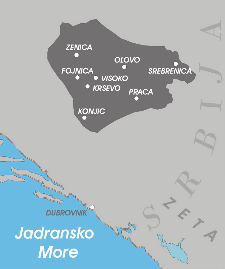 Bosnia, 1322.